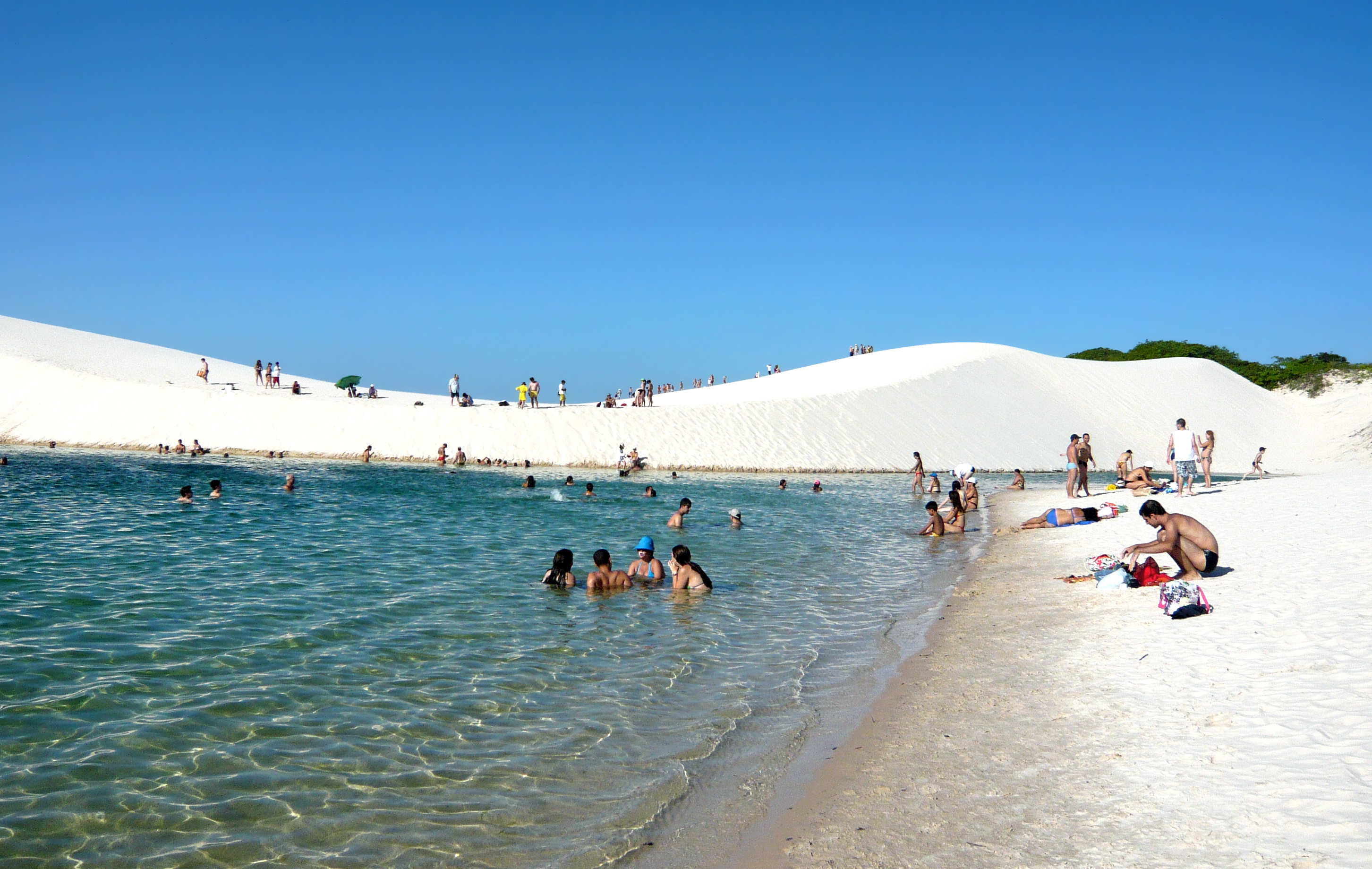 People bathing. Lençóis Maranhenses, Barreirinhas, Maranhão, Brazil